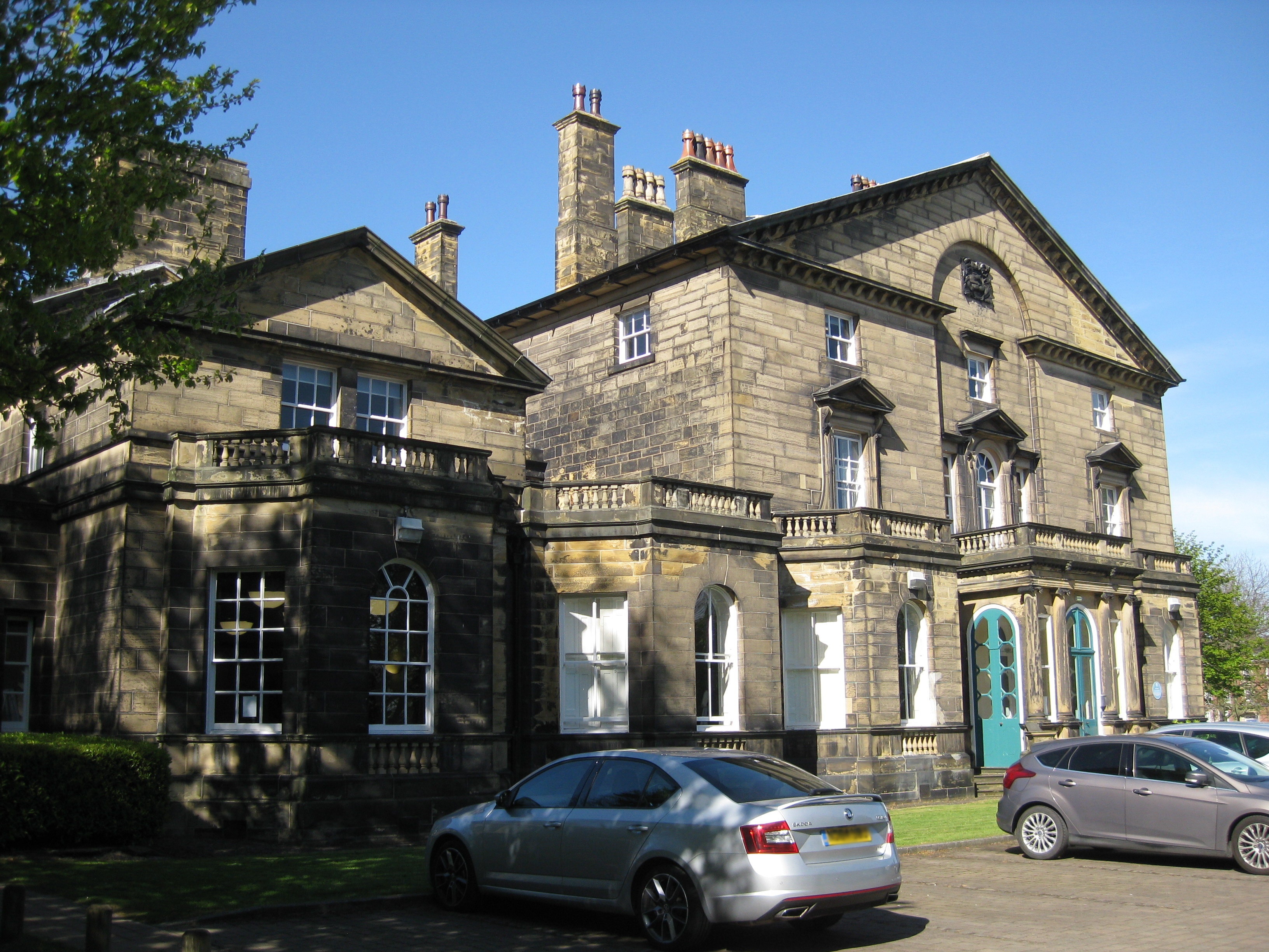 The Grange, Beckett Park, Leeds Beckett University Headingley campus. Three-quarter view.